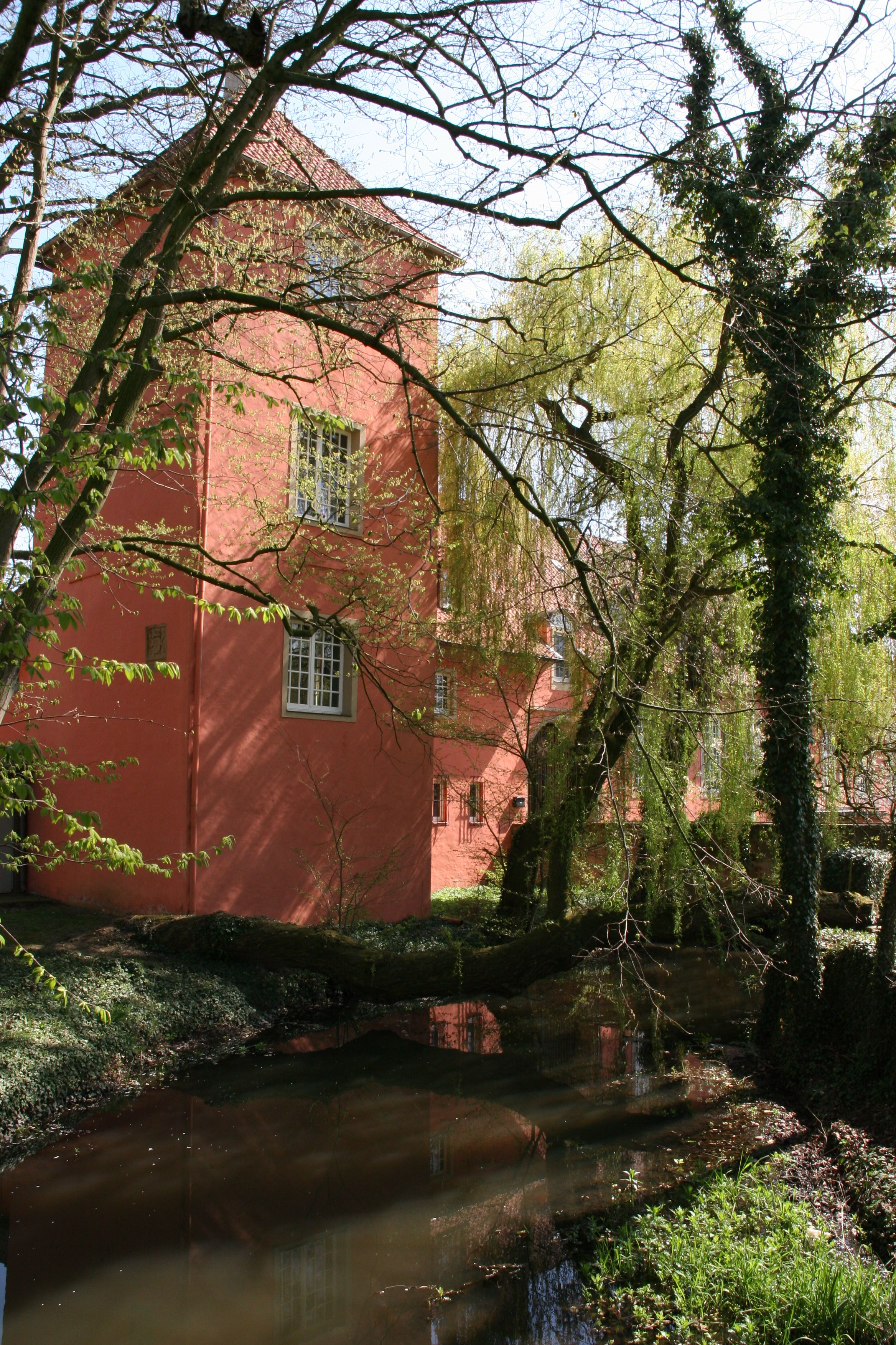 Rieste: the convent Kommende Lage